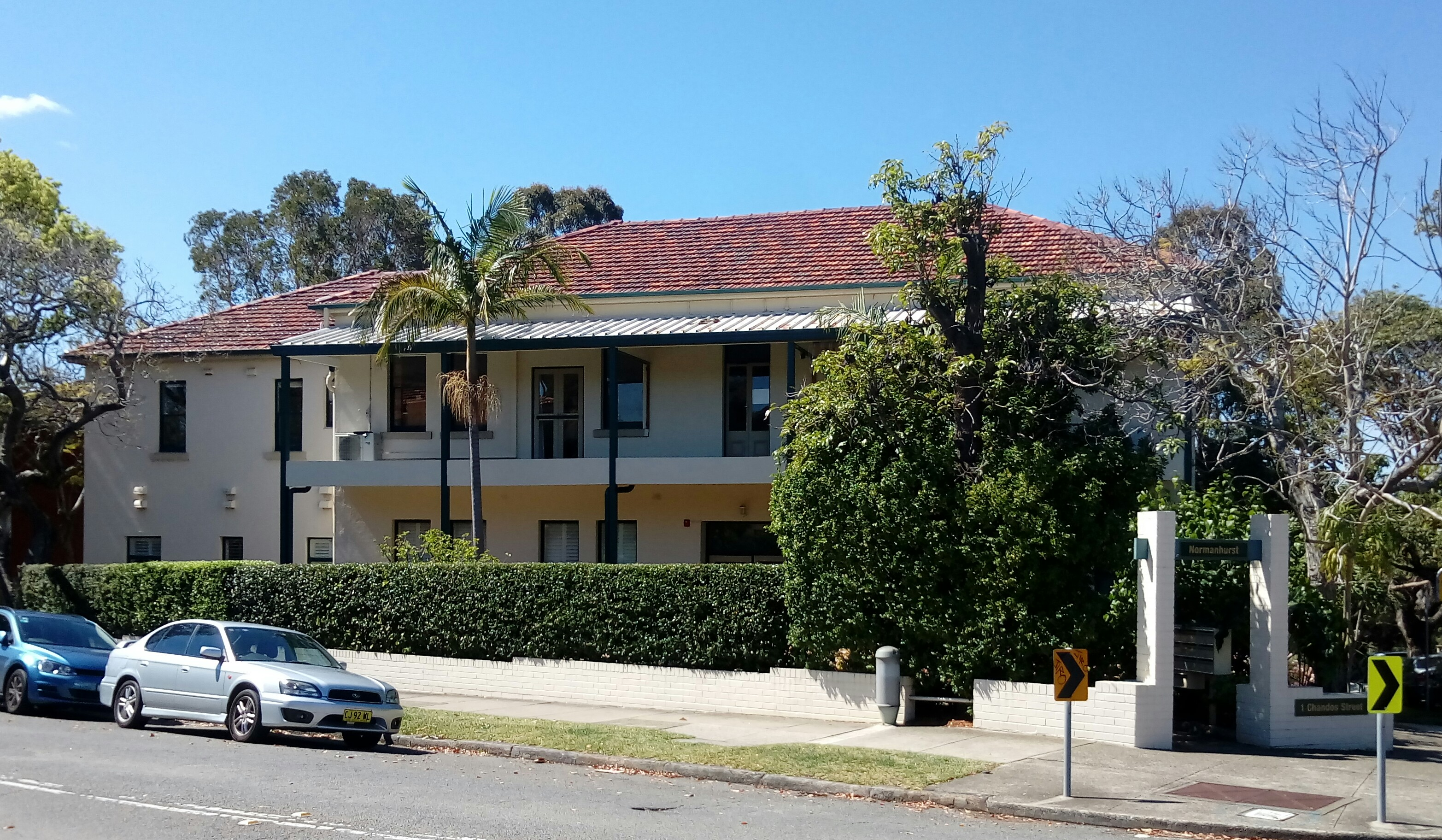 Photo of what was once the main building of the Normanhurst School in Ashfield, New South Wales, Australia at the intersection of Chandos and Ophington streets. It now forms part of The Willows Nursing Home.